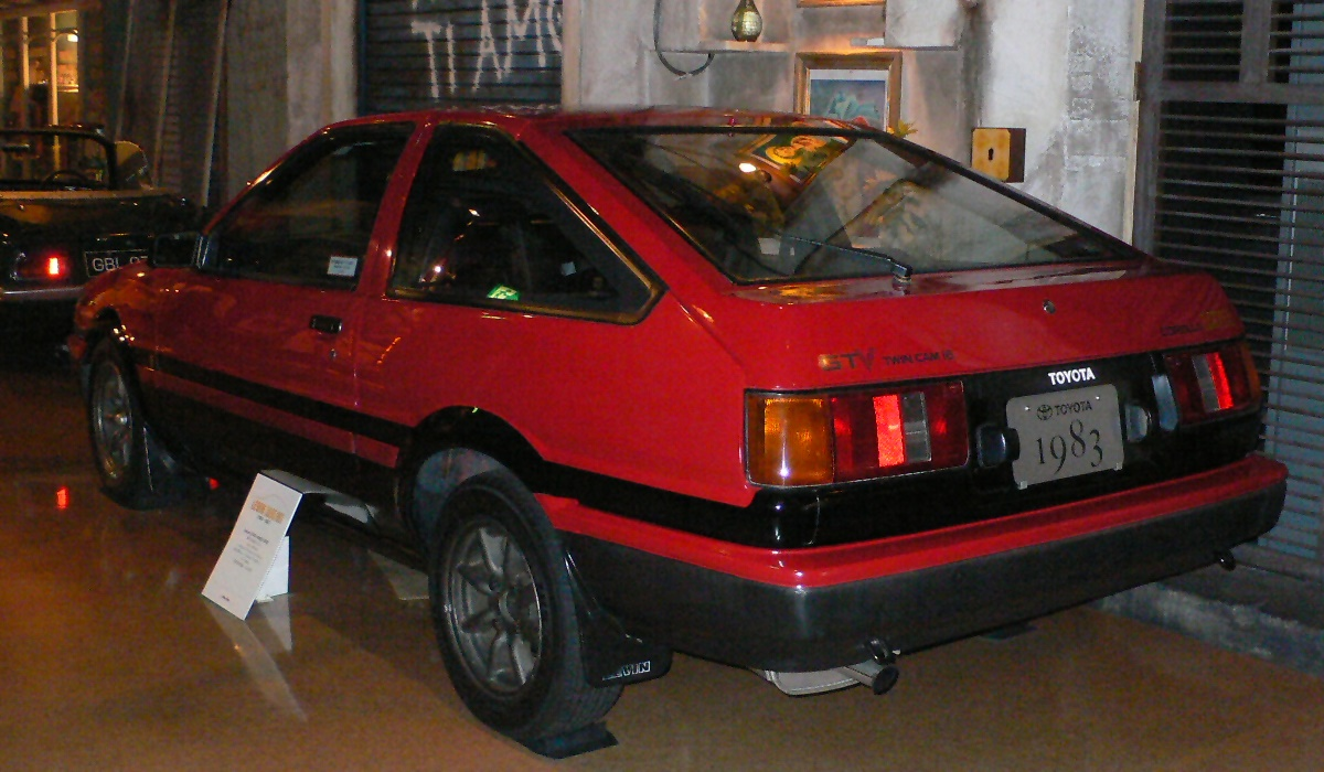 Toyota_Corolla-Levin(1983) photographed in MEGAWEB.